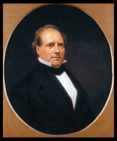 Portrait of Kentucky Governor Charles Slaughter Morehead (1802-1868) by Lizzie Jacobs, ca. 1914, Kentucky Historical Society.